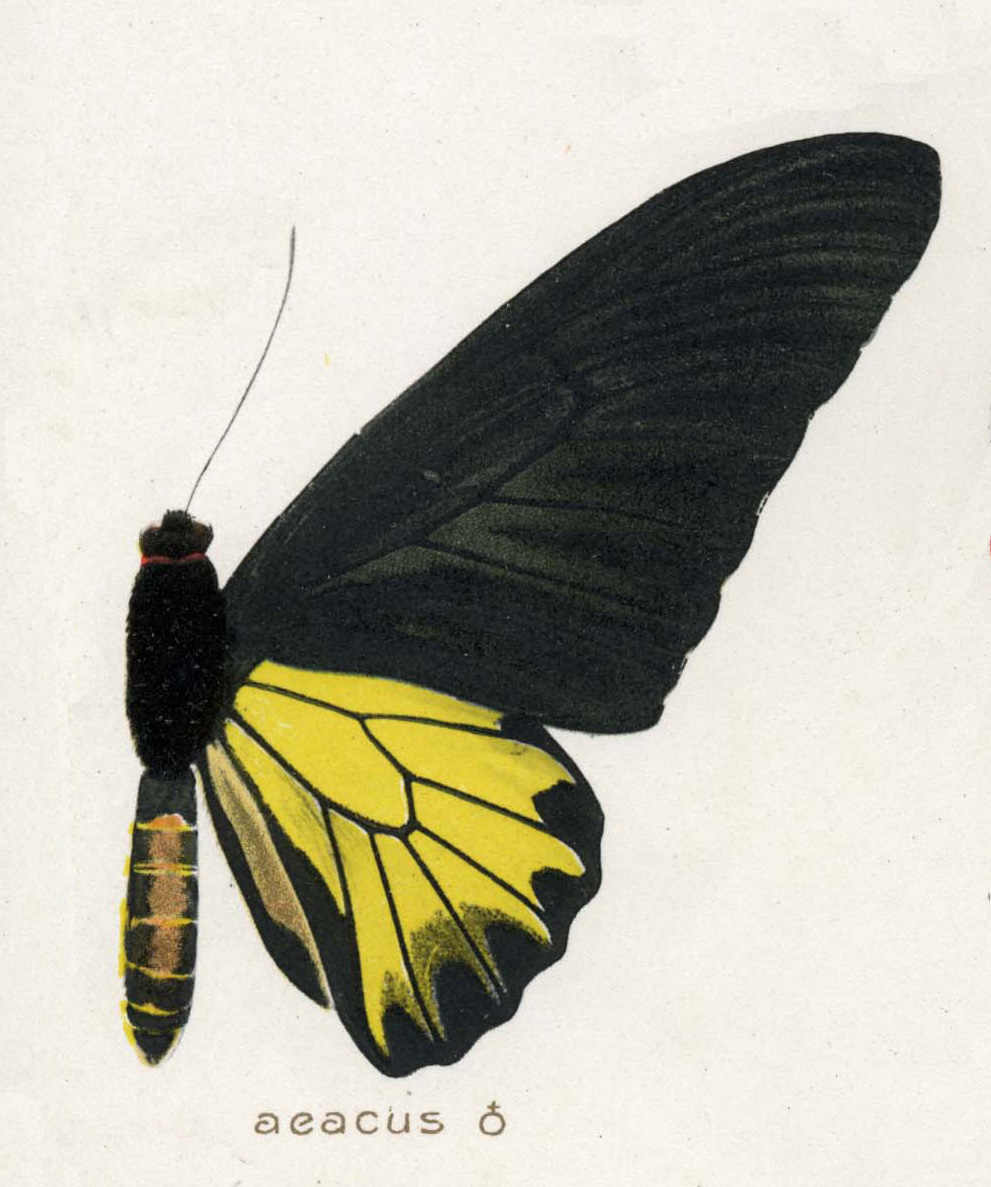 Golden Birdwing, male, upperwing